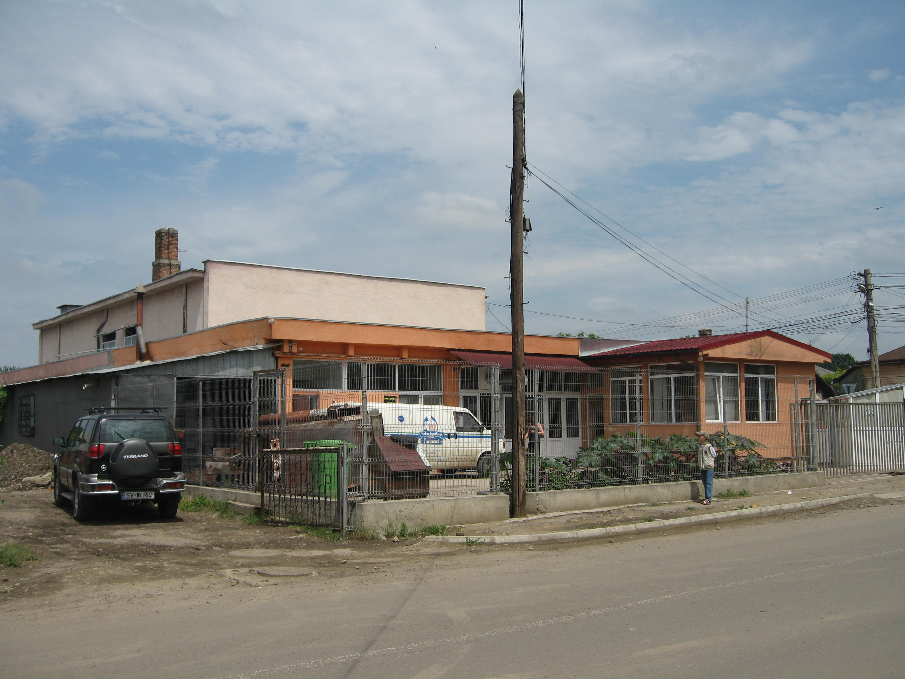 Arta Movie Theater in Iţcani, Suceava.